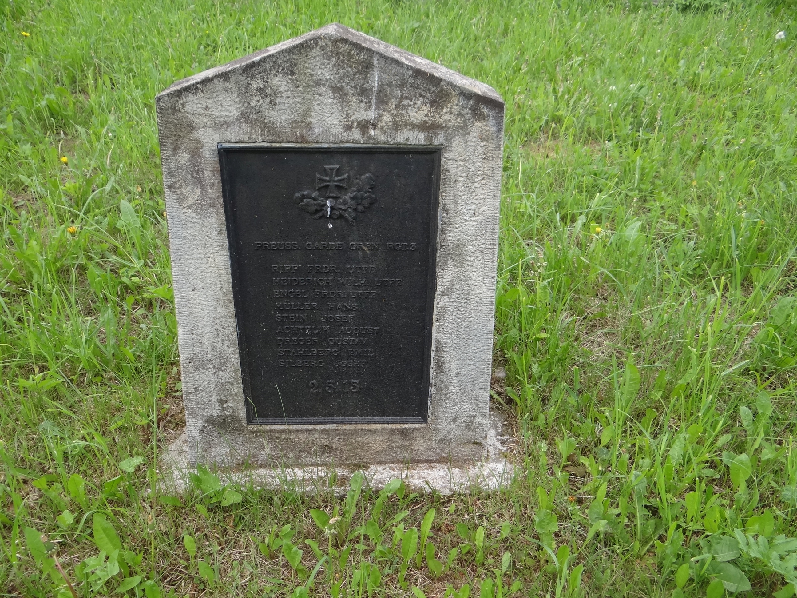 World War I Cemetery nr 116 in Staszkówka-Dawidówka